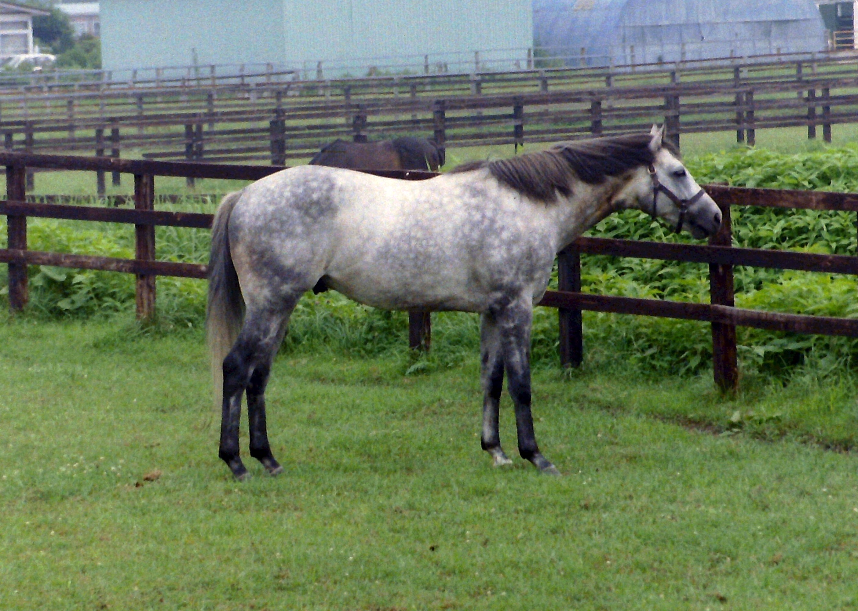 Oguri Cap, a Japanese racing hose in his stud, Yushun stallion station